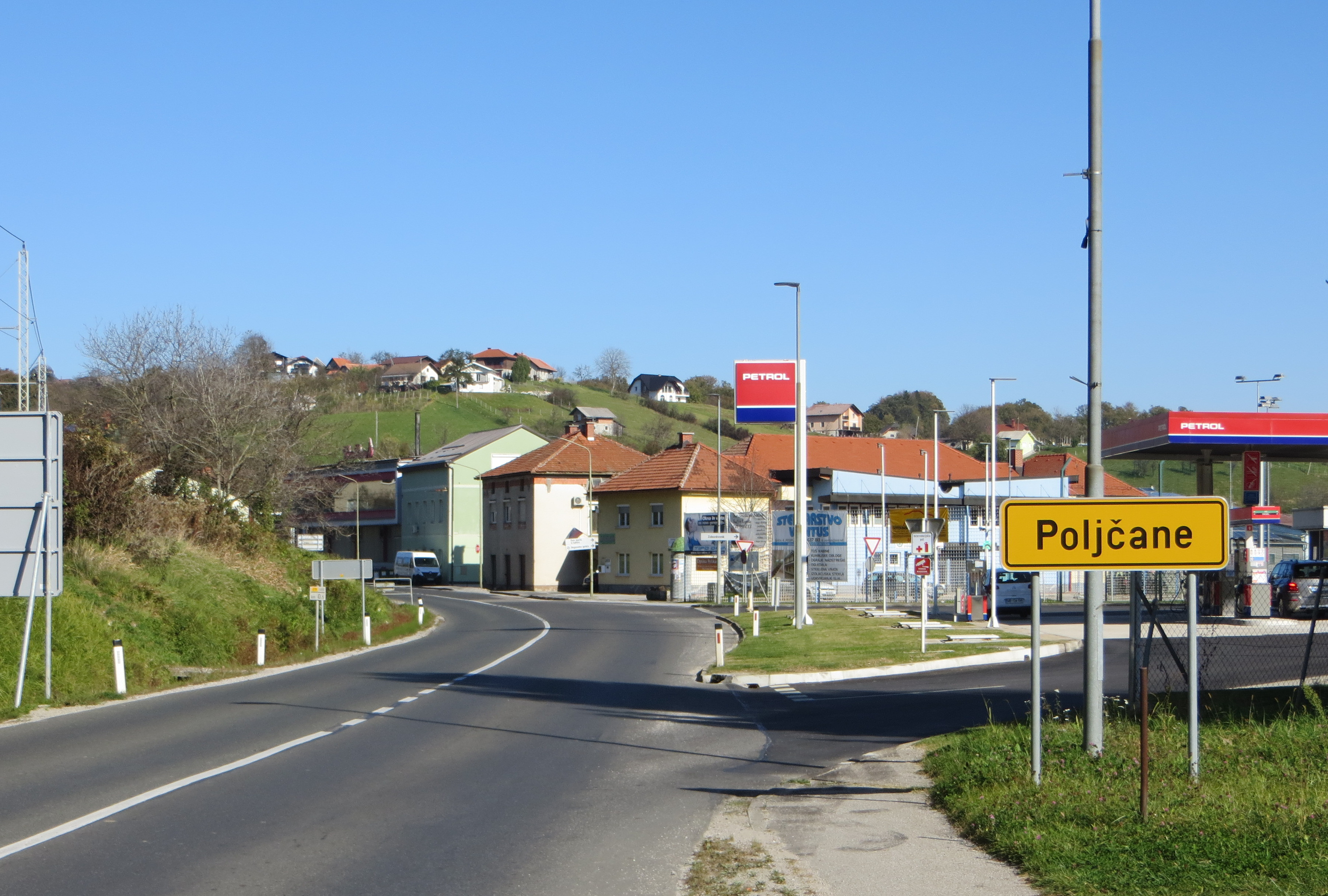 Poljčane, Municipality of Poljčane, Slovenia